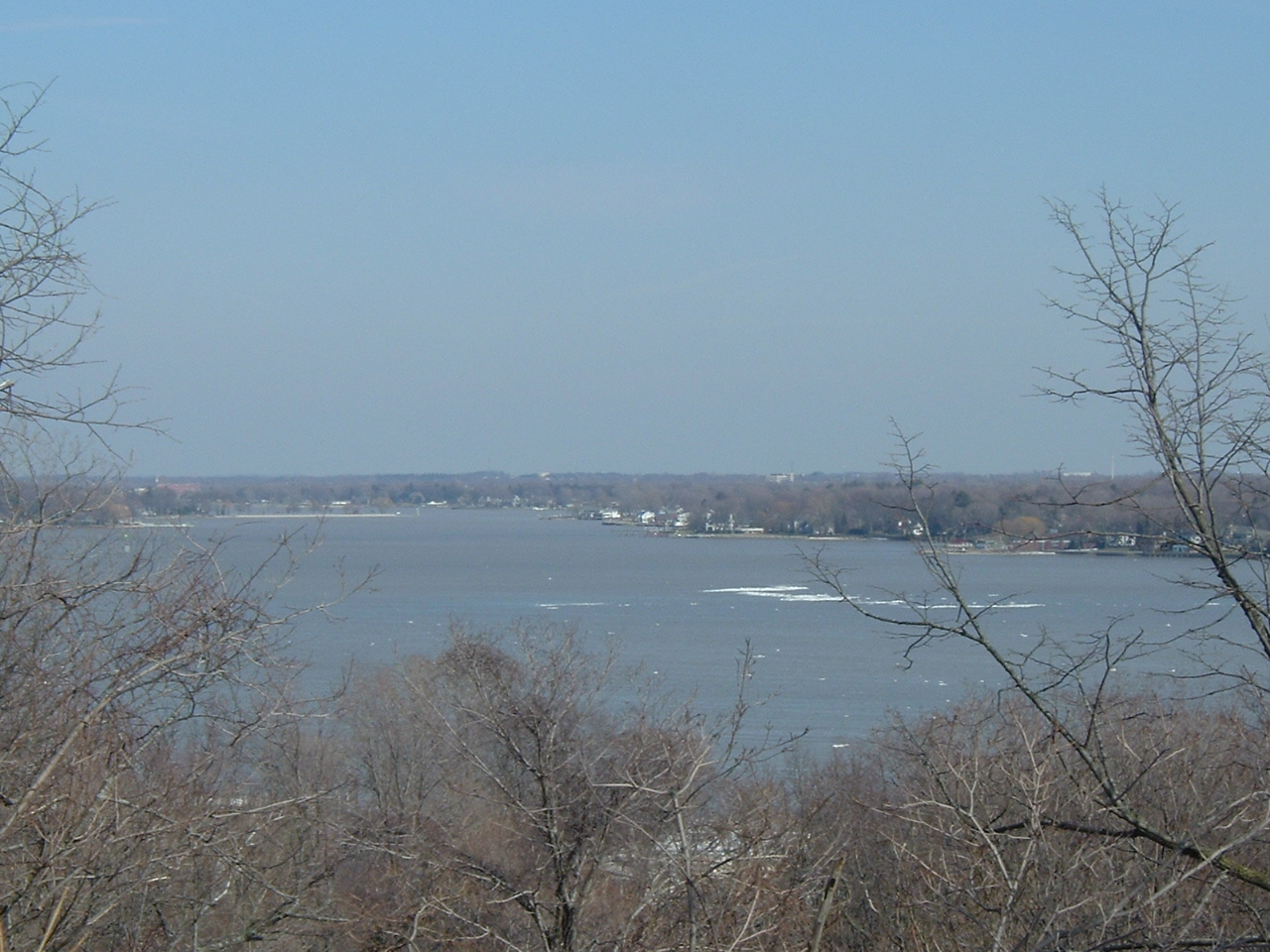 Copyright (c) 2006 James Colby Hook III. Permission is granted to copy, distribute and/or modify this document under the terms of the GNU Free Documentation License, Version 1.2 or any later version published by the Free Software Foundation; with no Invariant Sections, no Front-Cover Texts, and no Back-Cover Texts. A copy of the license is included in the section entitled "GNU Free Documentation License"